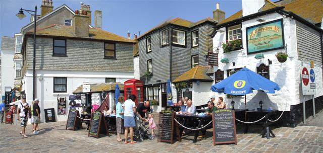 St Ives The Sloop Inn, serving traditional food, is located here.